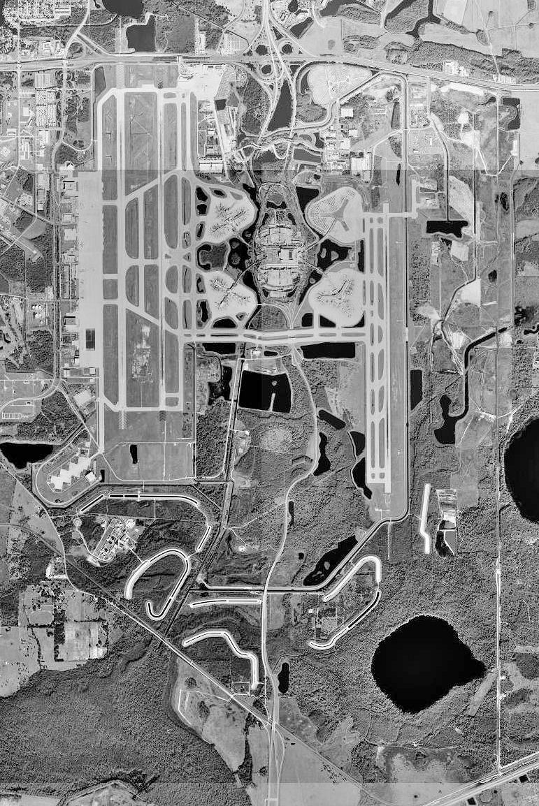 USGS digital orthophoto of Orlando International Airport in Orlando, Orange County, Florida, United States